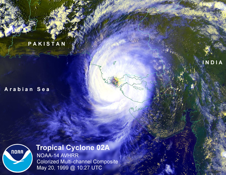 Description:Tropical Cyclone 2A of the 1999 North Indian cyclone season Publisher:NOAA URL: Uploaded by Mitchazenia.